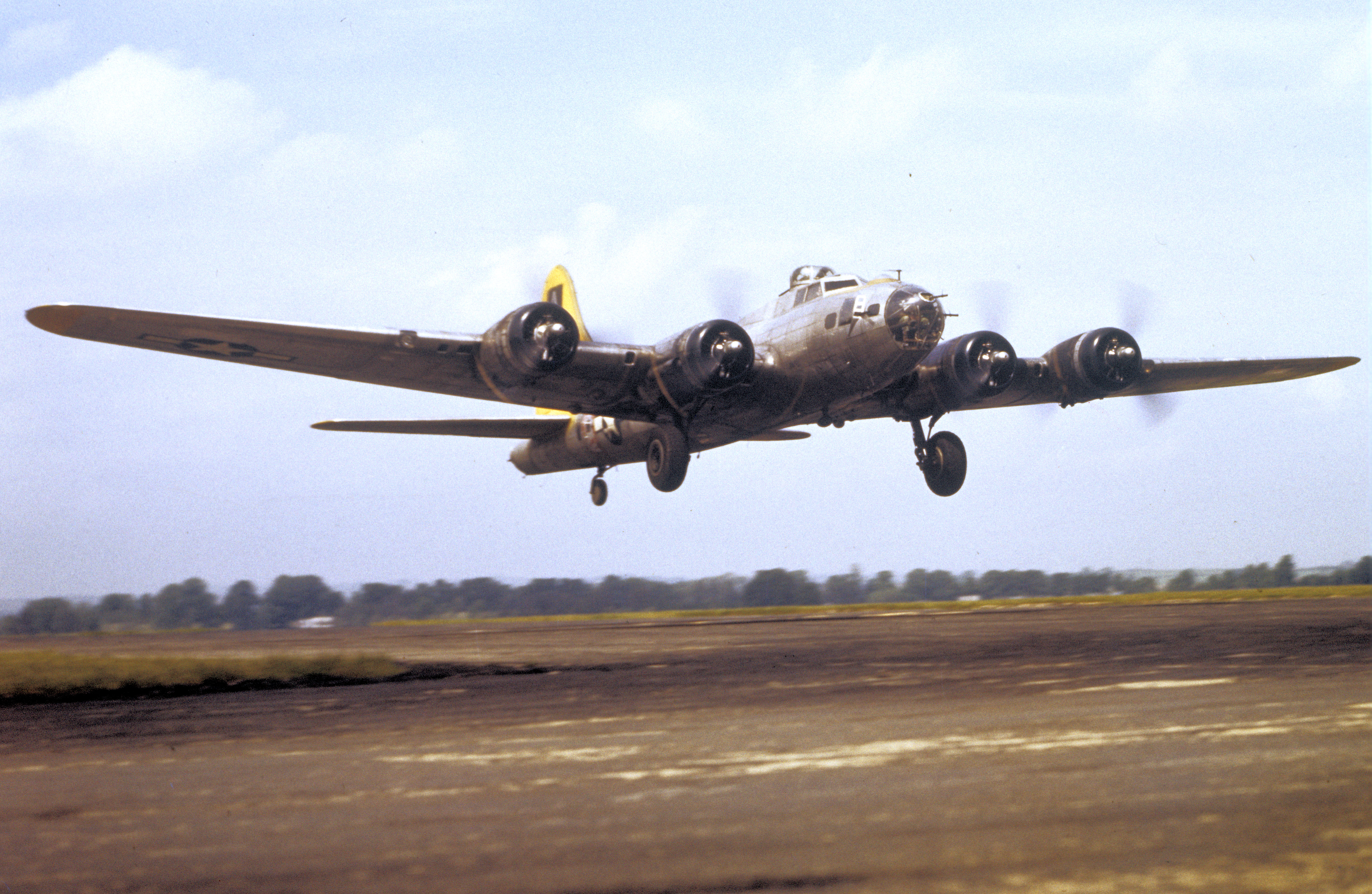 A B-17 Flying Fortress of the 94th Bomb Group takes off April 1945.